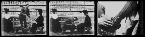 The Gay Shoe Clerk movie. 1903 year, USA, Edison Manufacturing Company